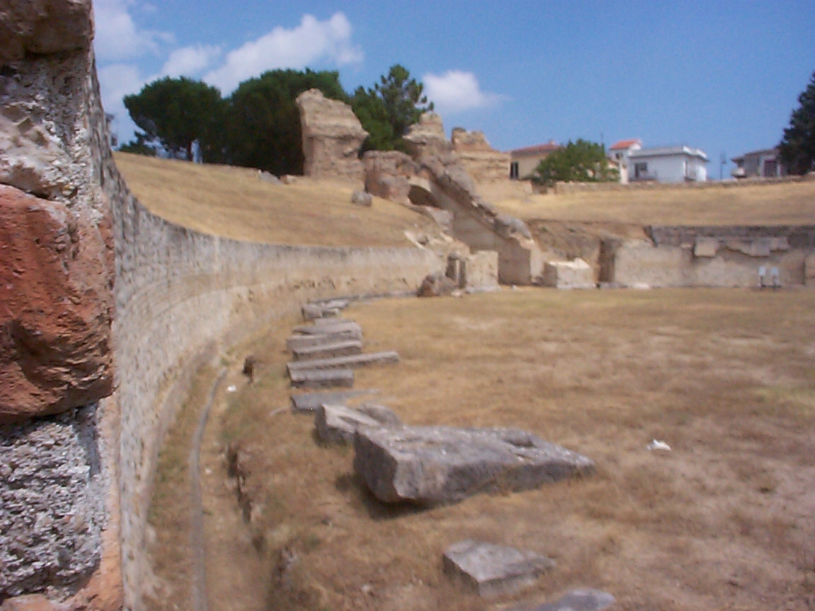 Dr. Robert Gardner. Larino CB amphitheatre.